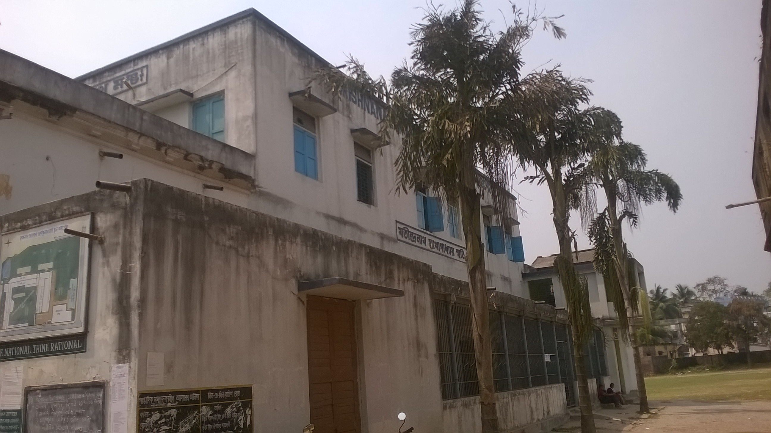 শহীদ বাঘা যতীনের স্মৃতিবিজড়িত বিদ্যালয়, কৃষ্ণনগর